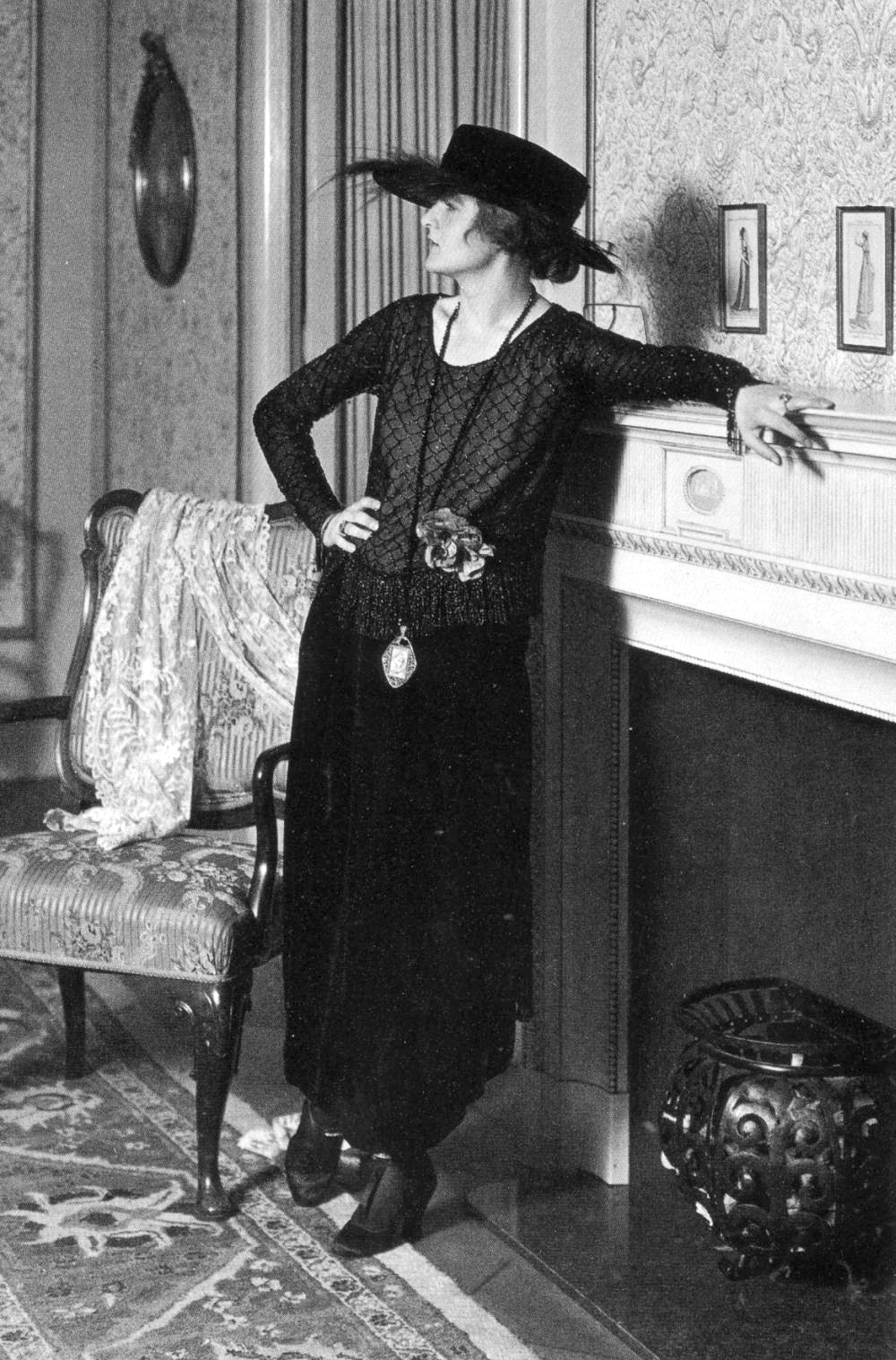 German actress and dancer Anita Berber posing for a fashion magazine.